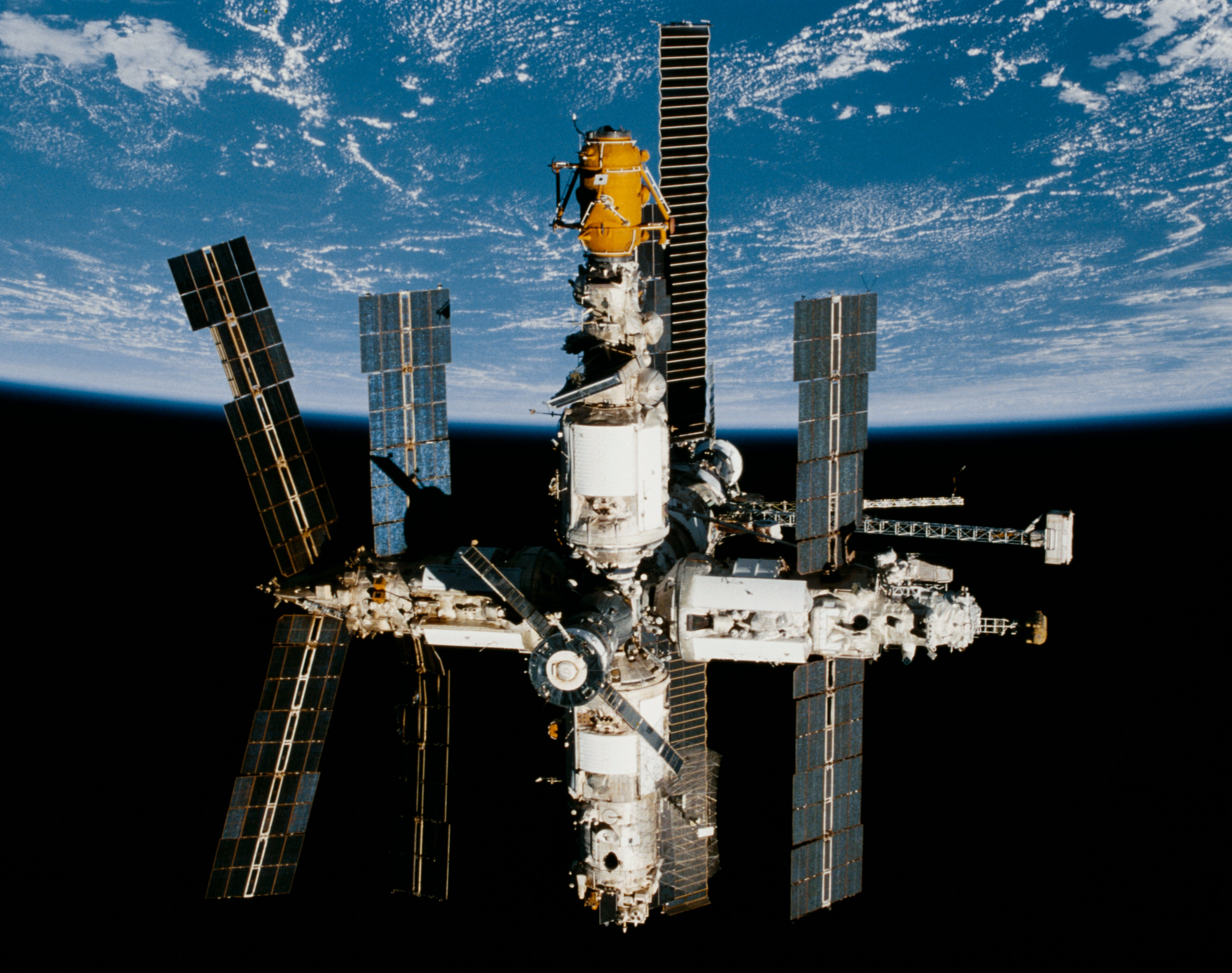 View of the Mir Space Station and Earth limb observed from the Orbiter Endeavour during STS-89 (DTO 1118). Image ID: STS089-346-007